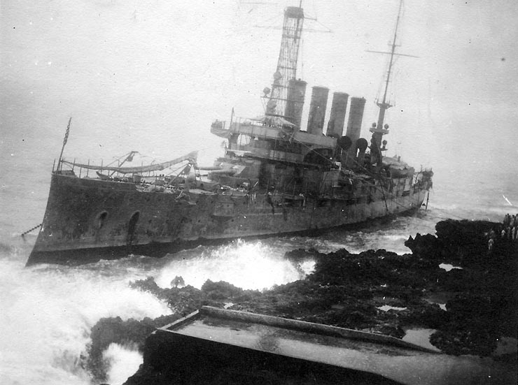 Removed caption read: Photo # NH 59921 USS Memphis wrecked by a tidal wave at Santo Domingo, August 1916 Wrecked at Santo Domingo, Dominican Republic, where she was thrown ashore by tidal waves on the afternoon of 29 August 1916. This view probably was taken early on 30 August, as the ship appears to be abandoned. Note the anchor chain running seaward from her starboard bow.